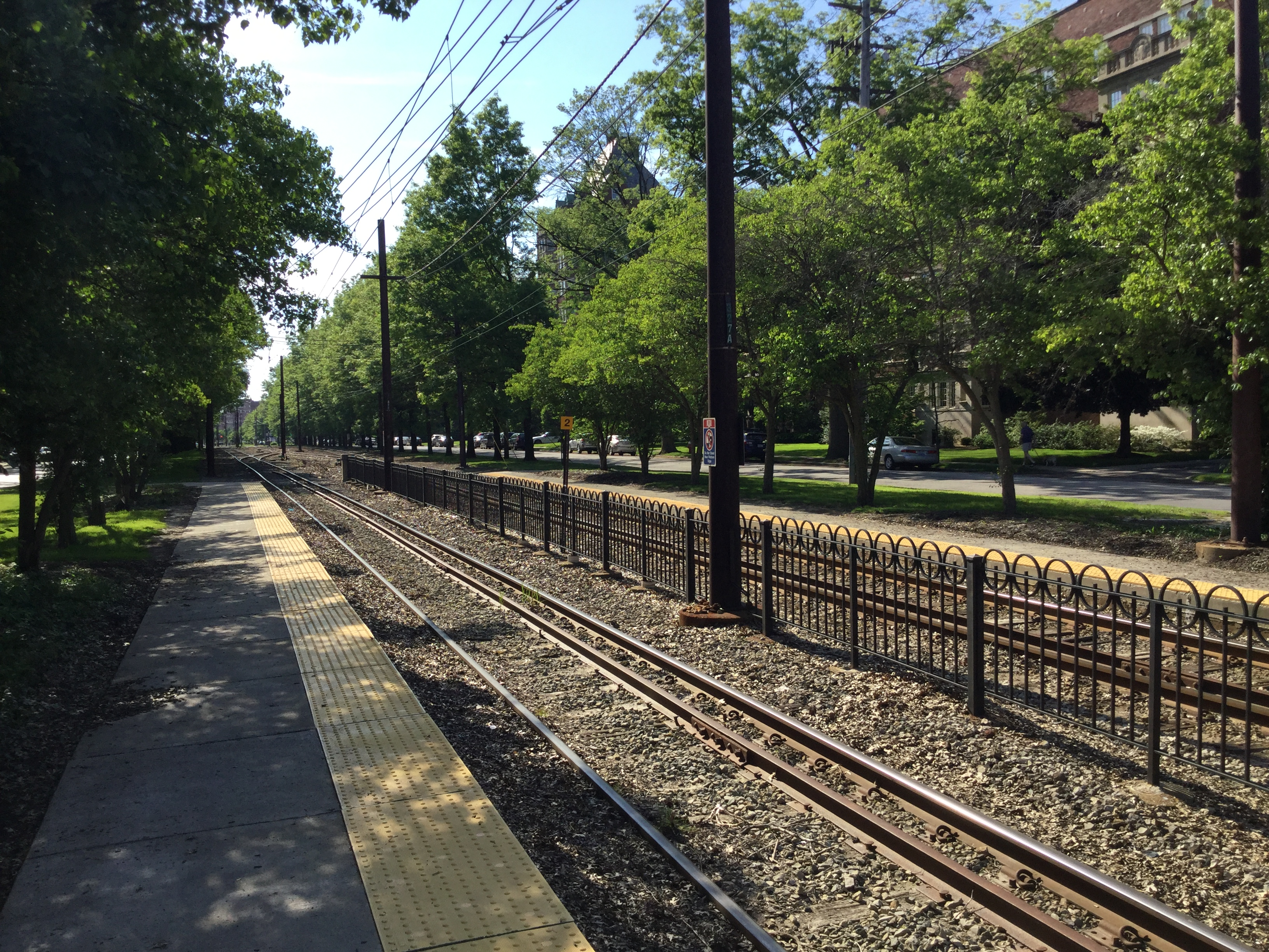 RTA station